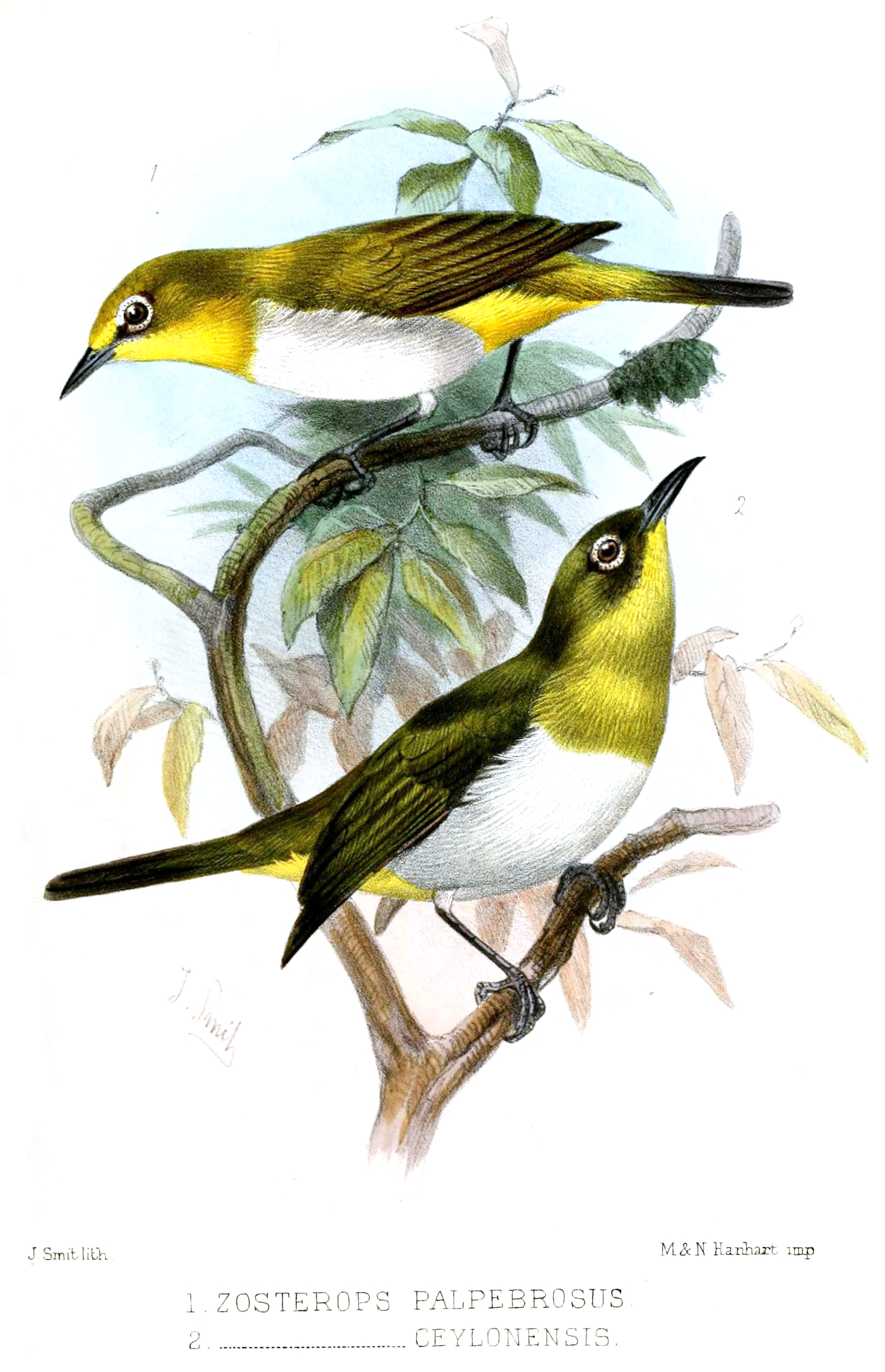 Adults of Oriental White-eye (above) and Sri Lanka White-eye (below)